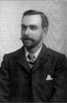 Herbert Walton was the organist at Glasgow Cathedral in 1897